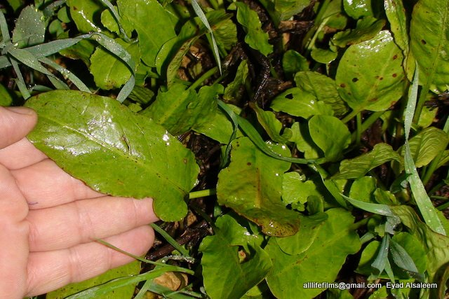 نباتات برّية سورية تؤكل